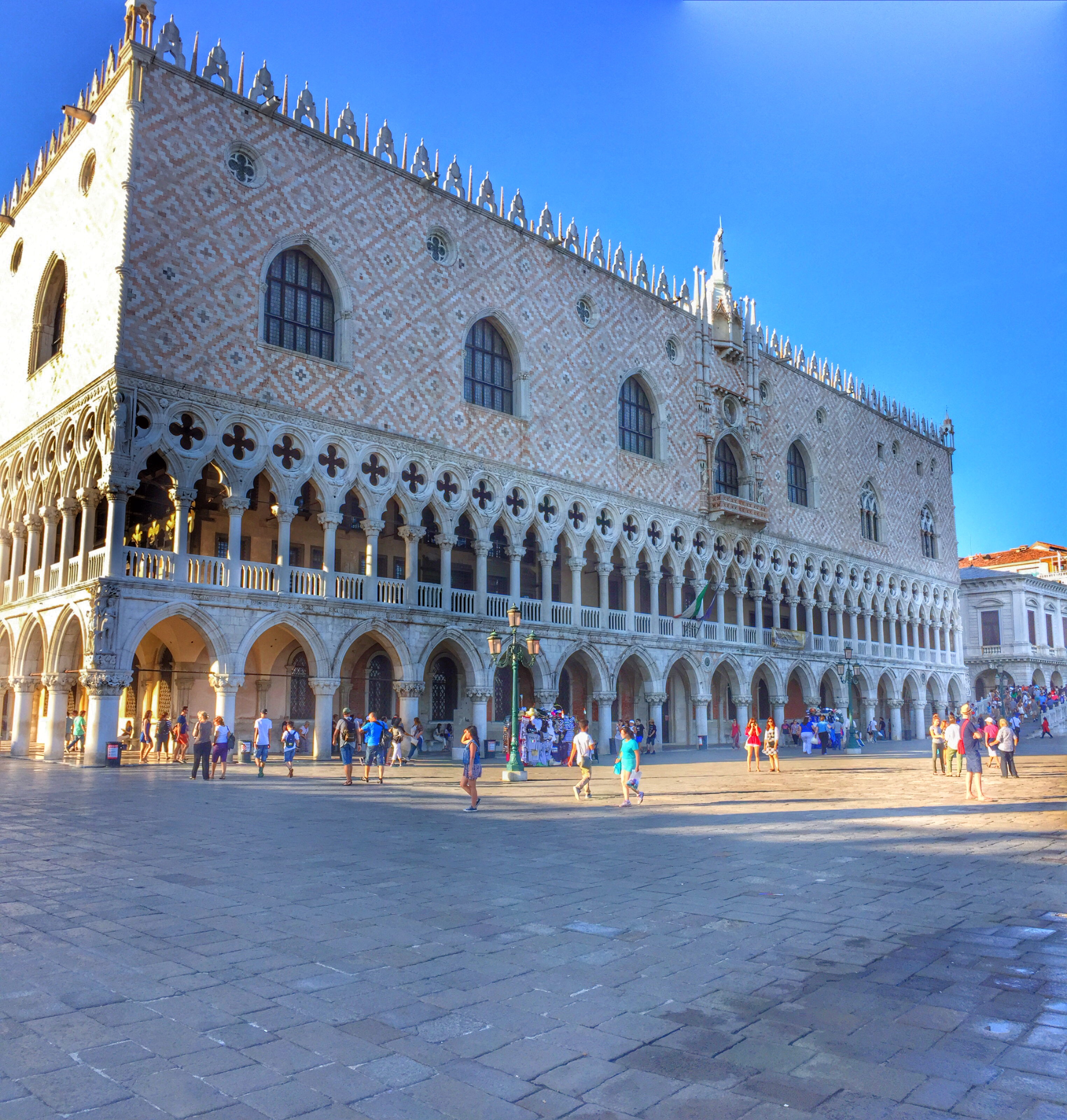 The Doge's Palace (Italian: Palazzo Ducale) is a palace built in Venetian Gothic style, and one of the main landmarks of the city of Venice in northern Italy.